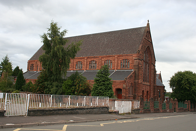 More properly called the Cathedral of our Lady of Good Aid, this is the seat of the Roman Catholic Diocese of Motherwell. Originally an ordinary church, the striking red sandstone building was designed by Peter Paul Pugin and opened on 9 December 1900. It was renovated and adapted for use as a cathedral in 1948 by Jack Antonio Coia, and is a Category B Listed building.